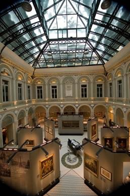 "Gaspare Landi" exihibition in Palazzo Galli